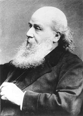 19th century photograph